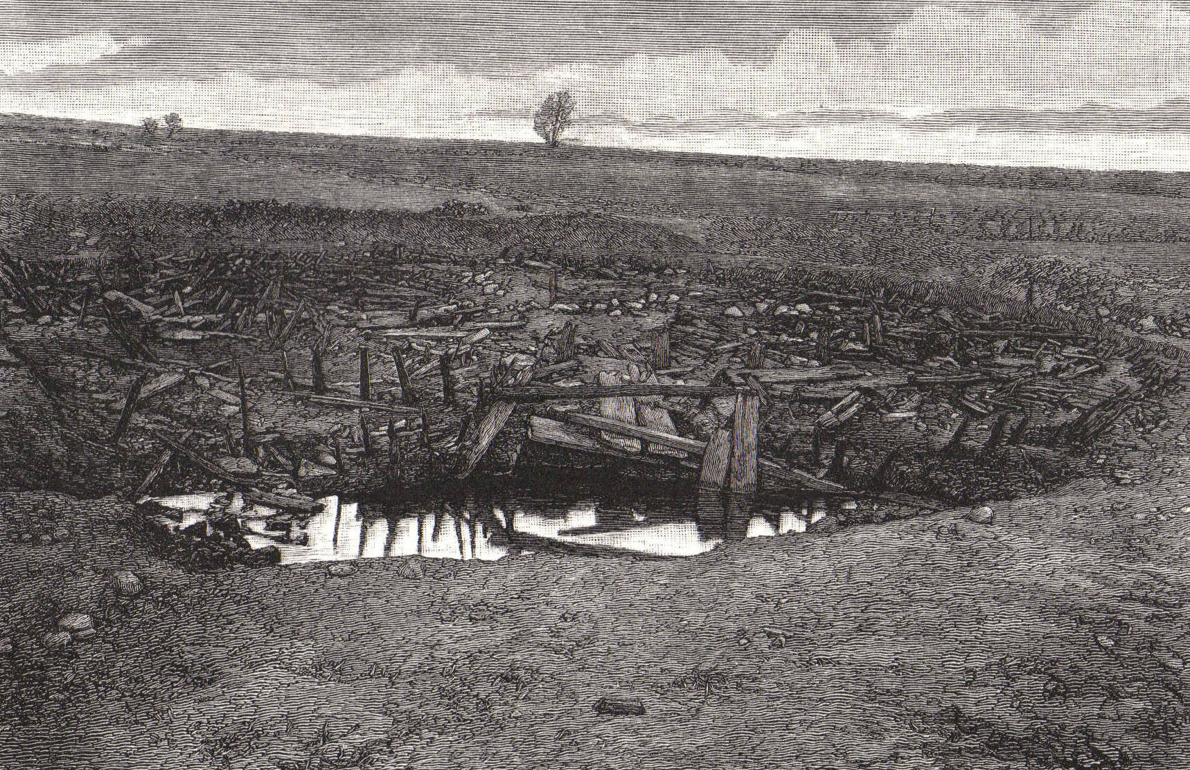 An overview of the excavations at the Buiston Crannog in 1881, Kilmaurs, South Ayrshire, Scotland.